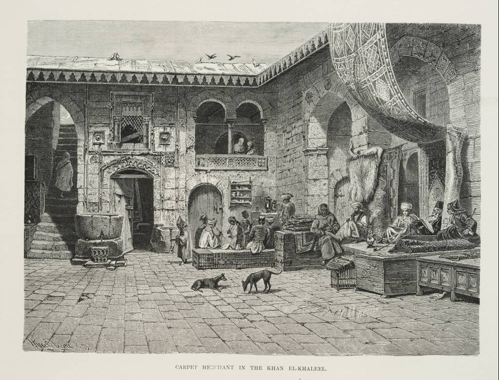 A paved square where a carpet merchant shows his wares.